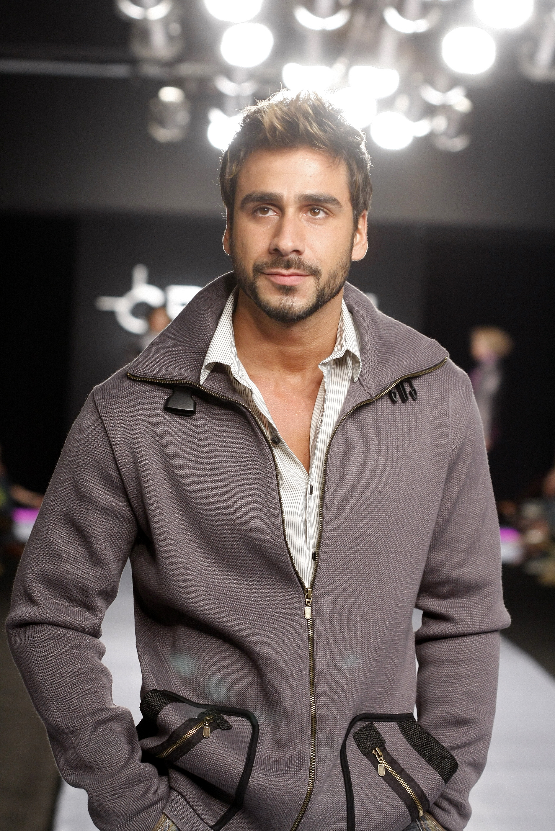 Brazilian actor Júlio Rocha.